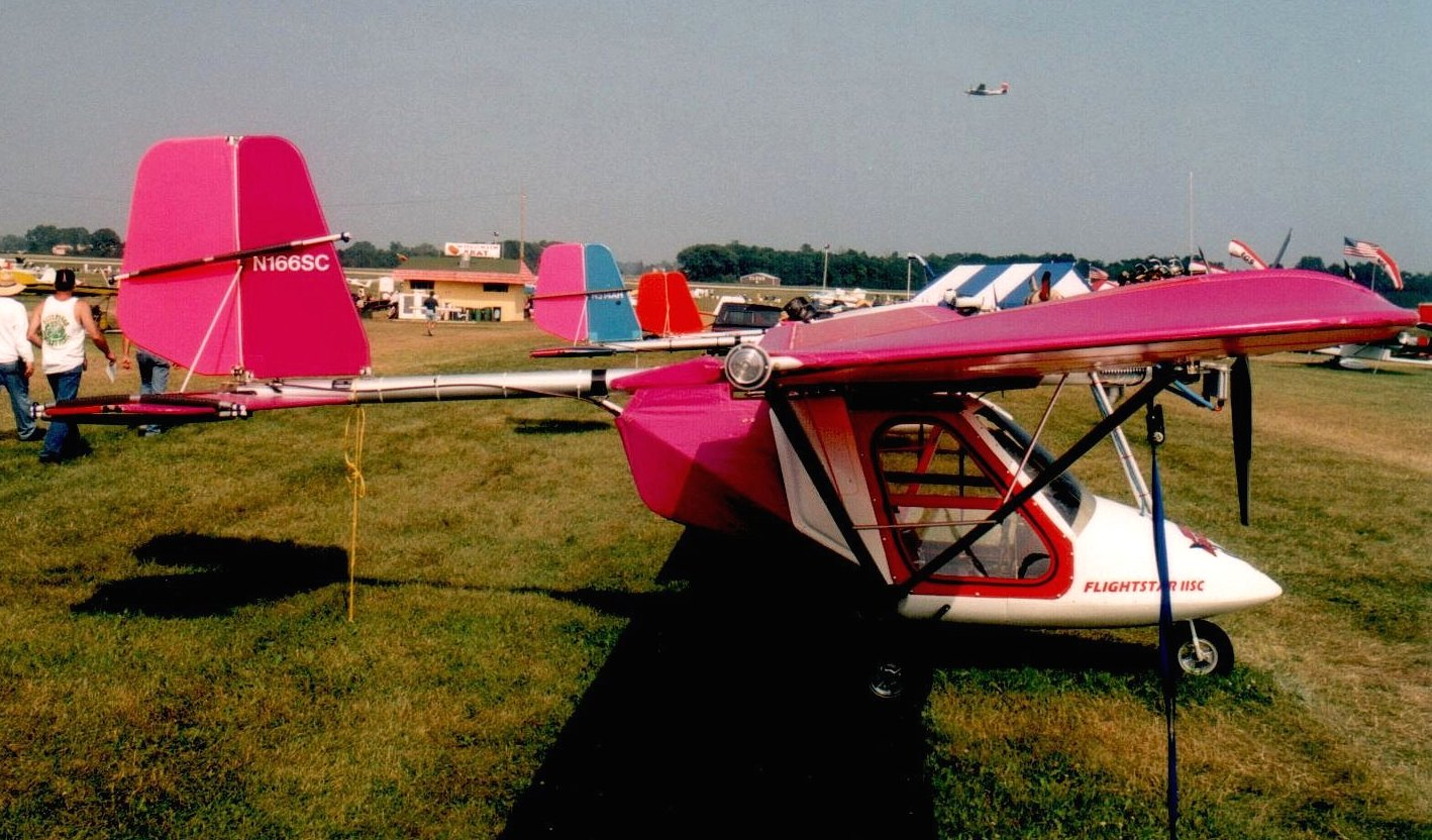 A Flightstar IISC at Oshkosh 2001